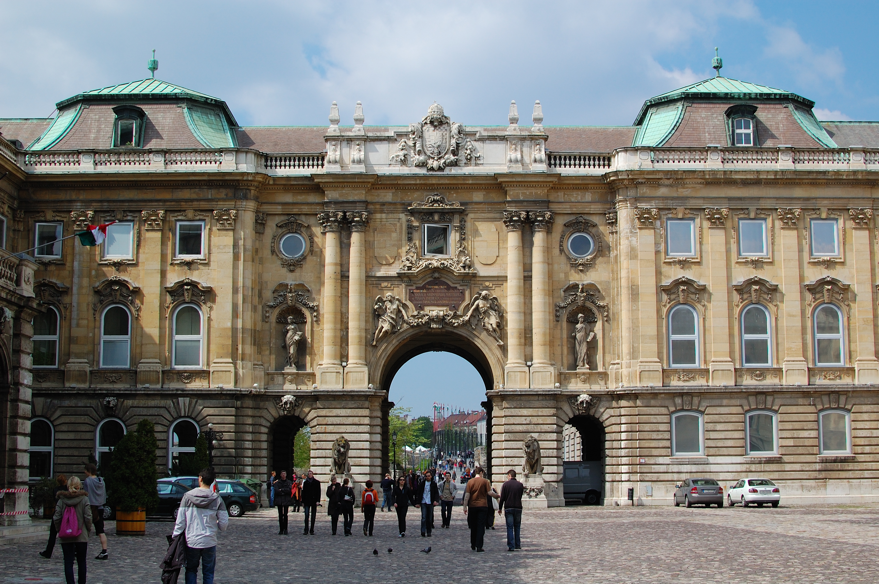 Buda Castle in Budapest.